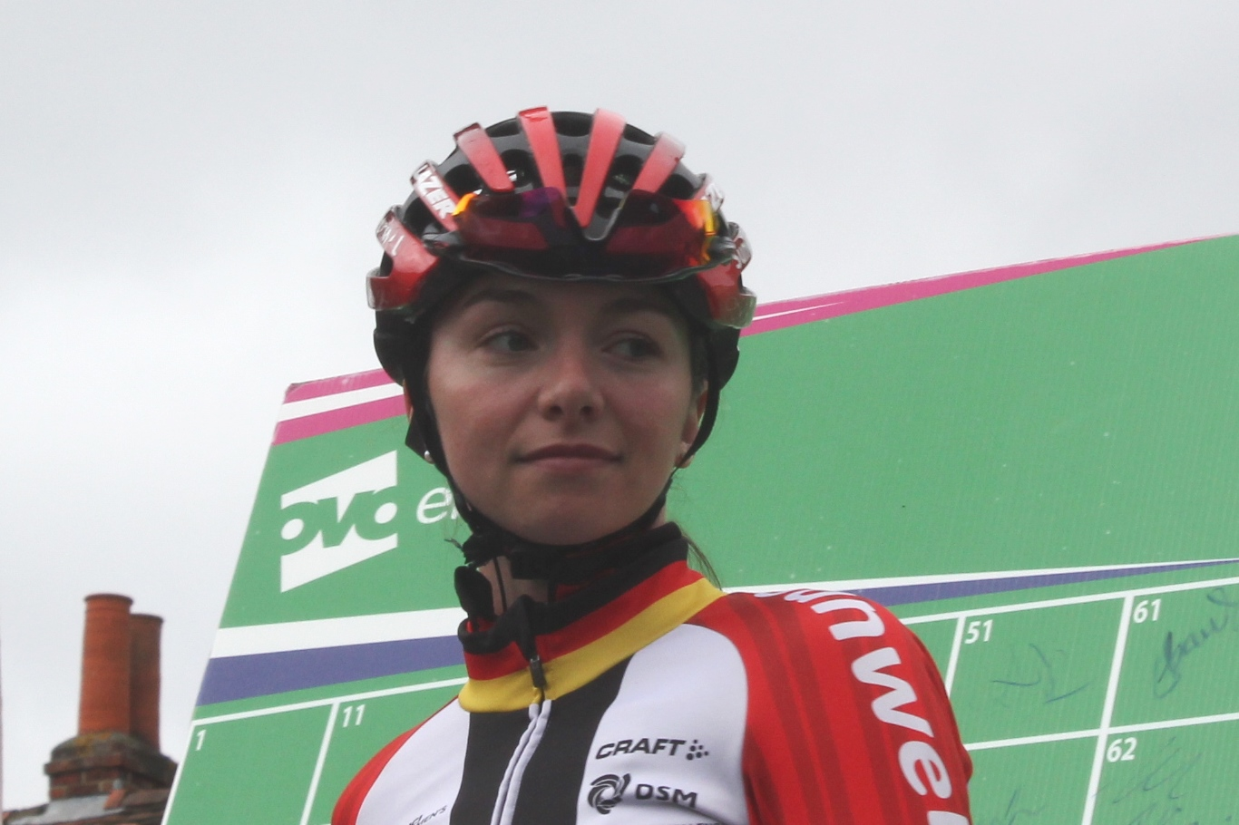 German national road racing champion Liane Lippert at the 2019 Women's Tour.